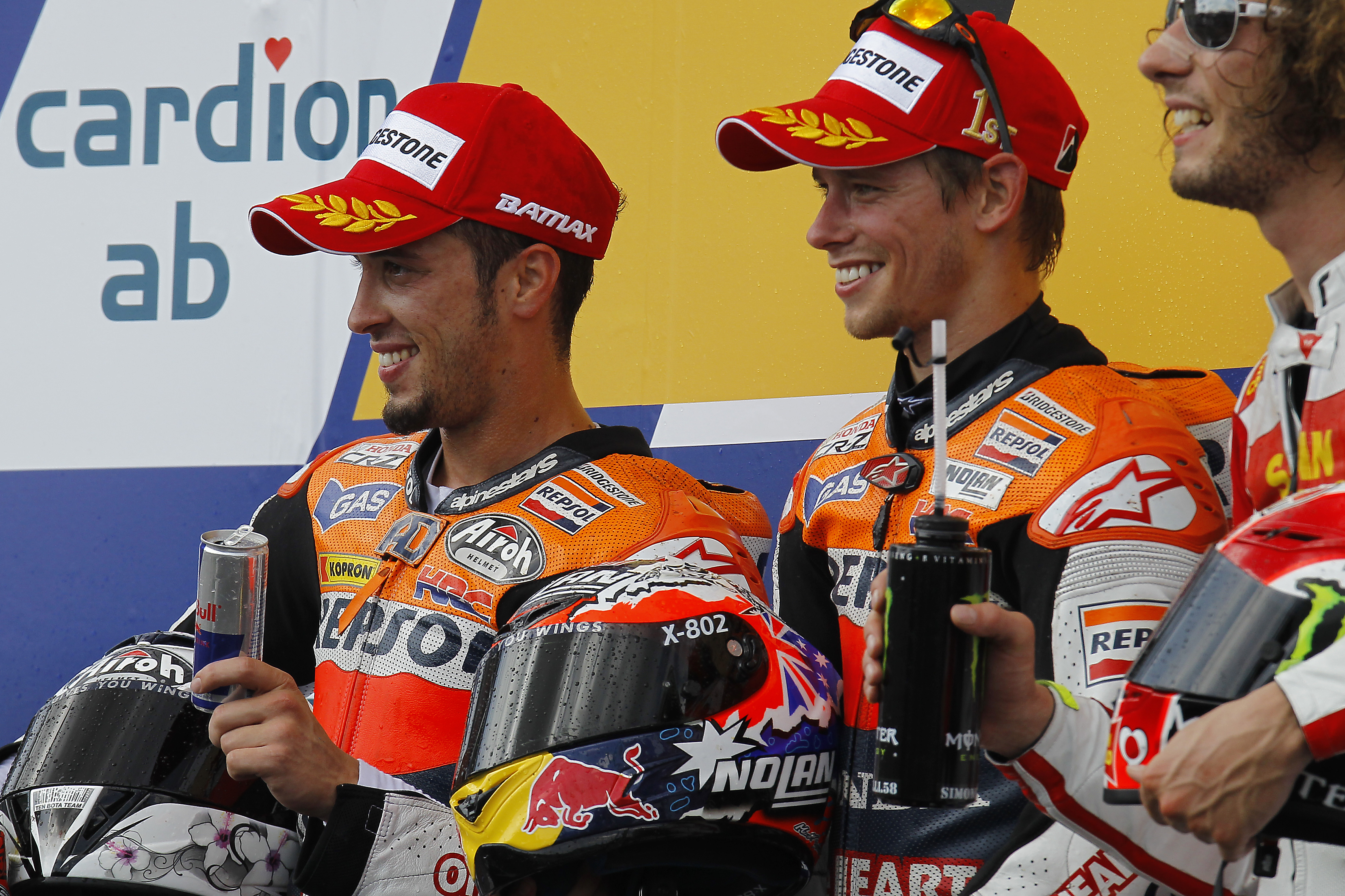 Andrea Dovizioso, Casey Stoner and Marco Simoncelli, posing for photo's on the podium after finishing in second, first and third place at the 2011 Czech Republic Grand Prix.